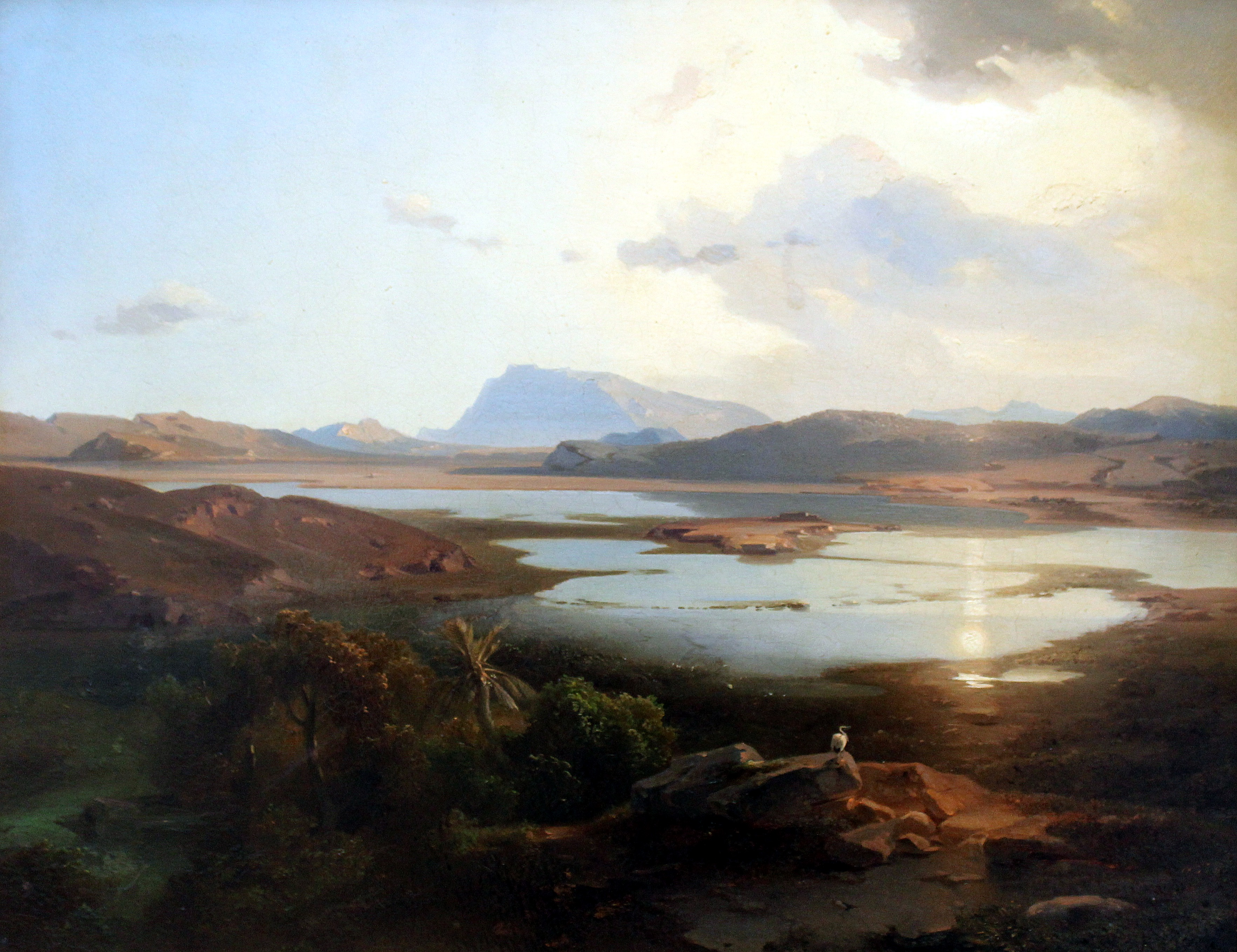 Leipzig, Museum of Fine Arts, Carl Rottmann, lake Kopais in Boeotia with the Parnassus in the background